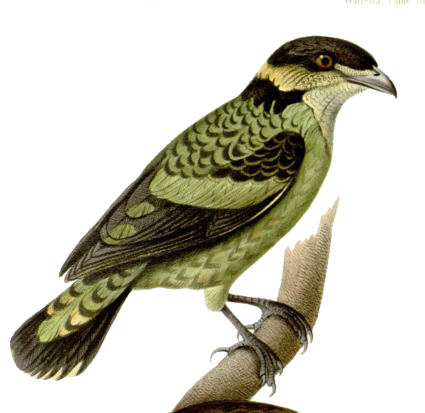 Ampelioides tschudii